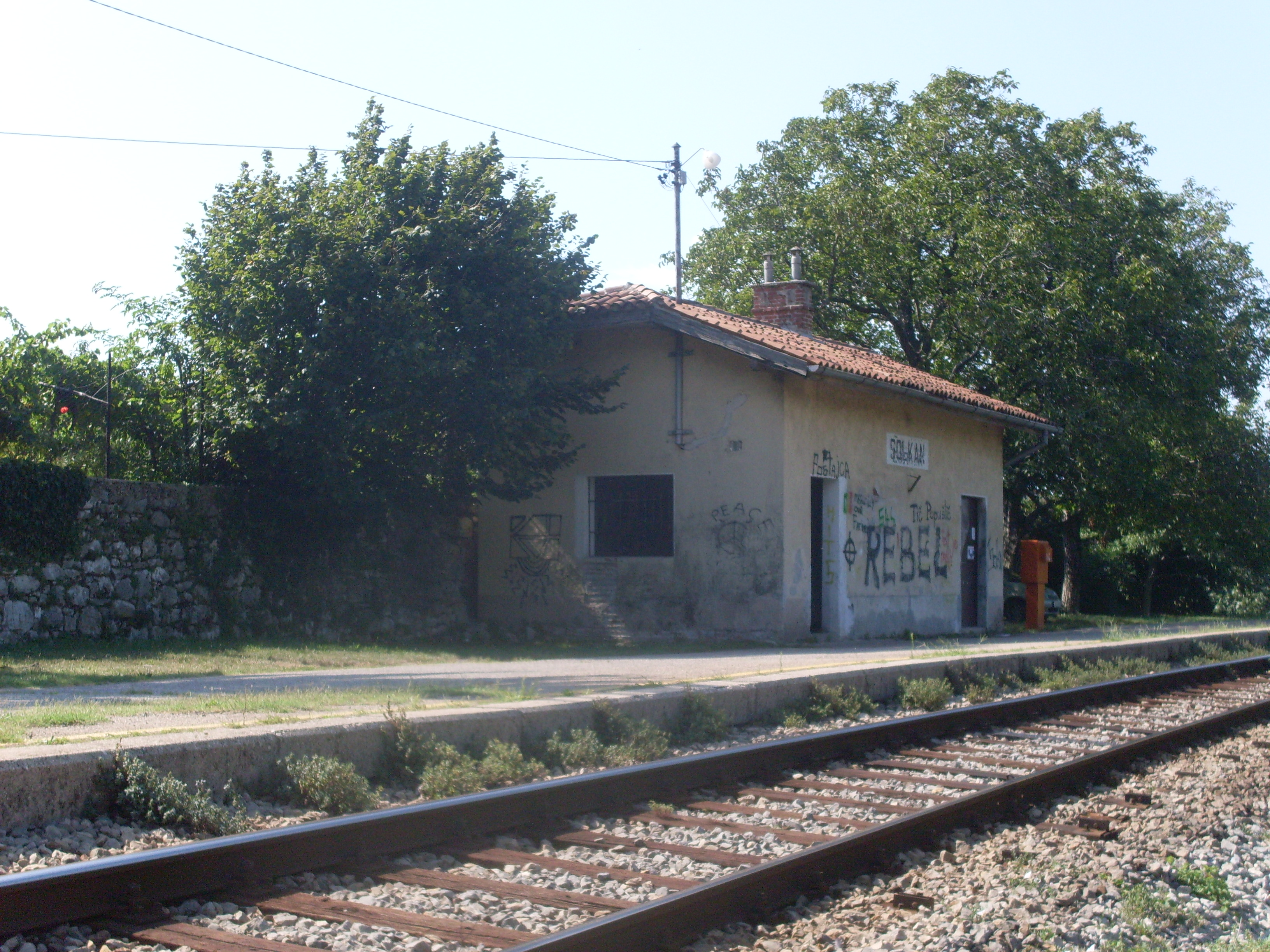 Railway halt in Solkan